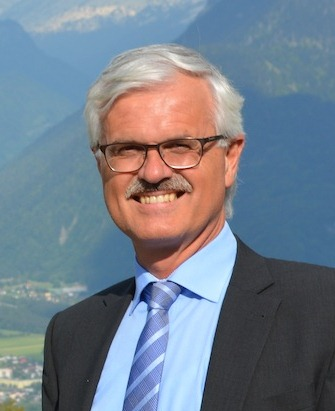 Manfred Tschaikner, Historian and archivist